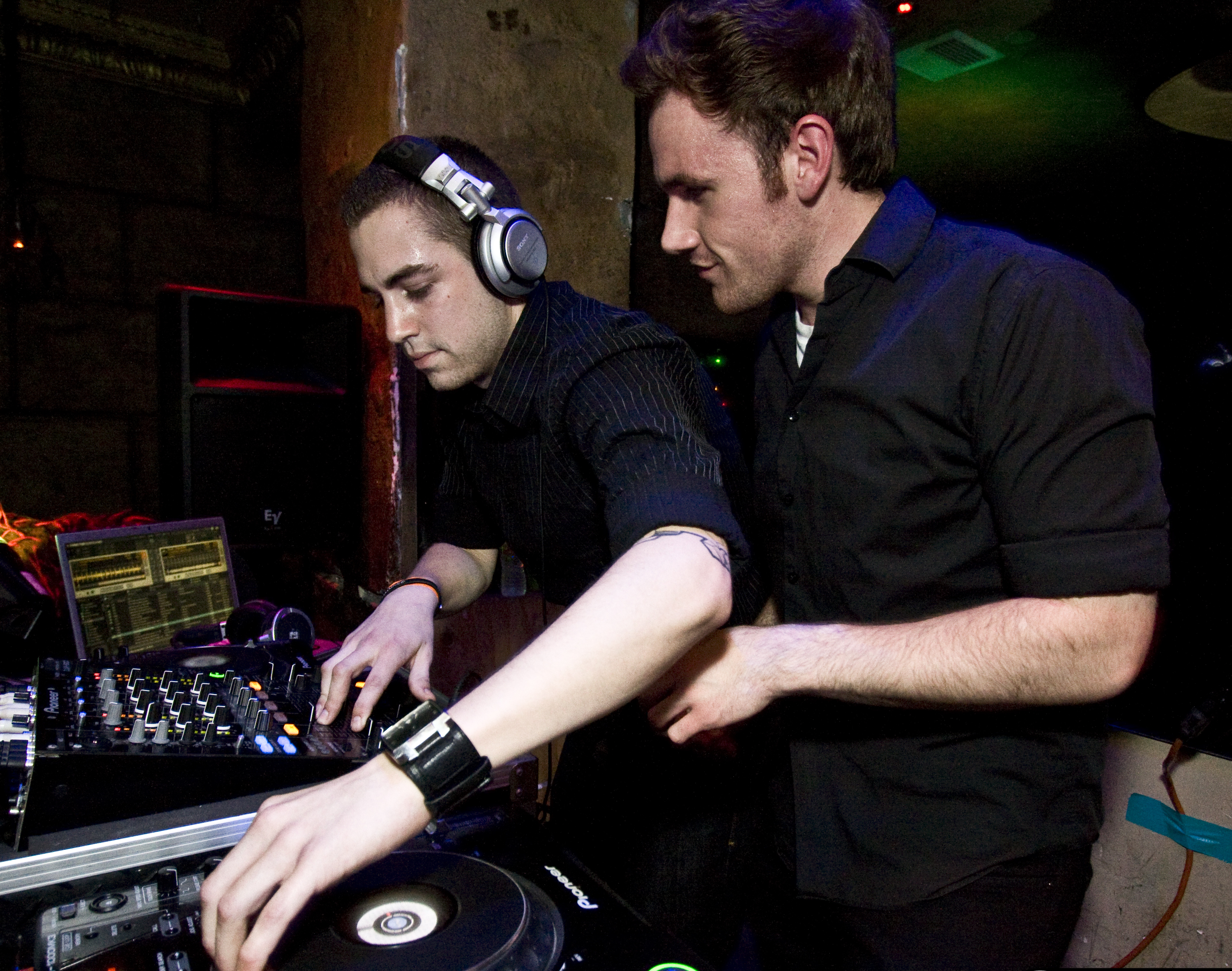 Norin (right) & Rad (left) in 2011